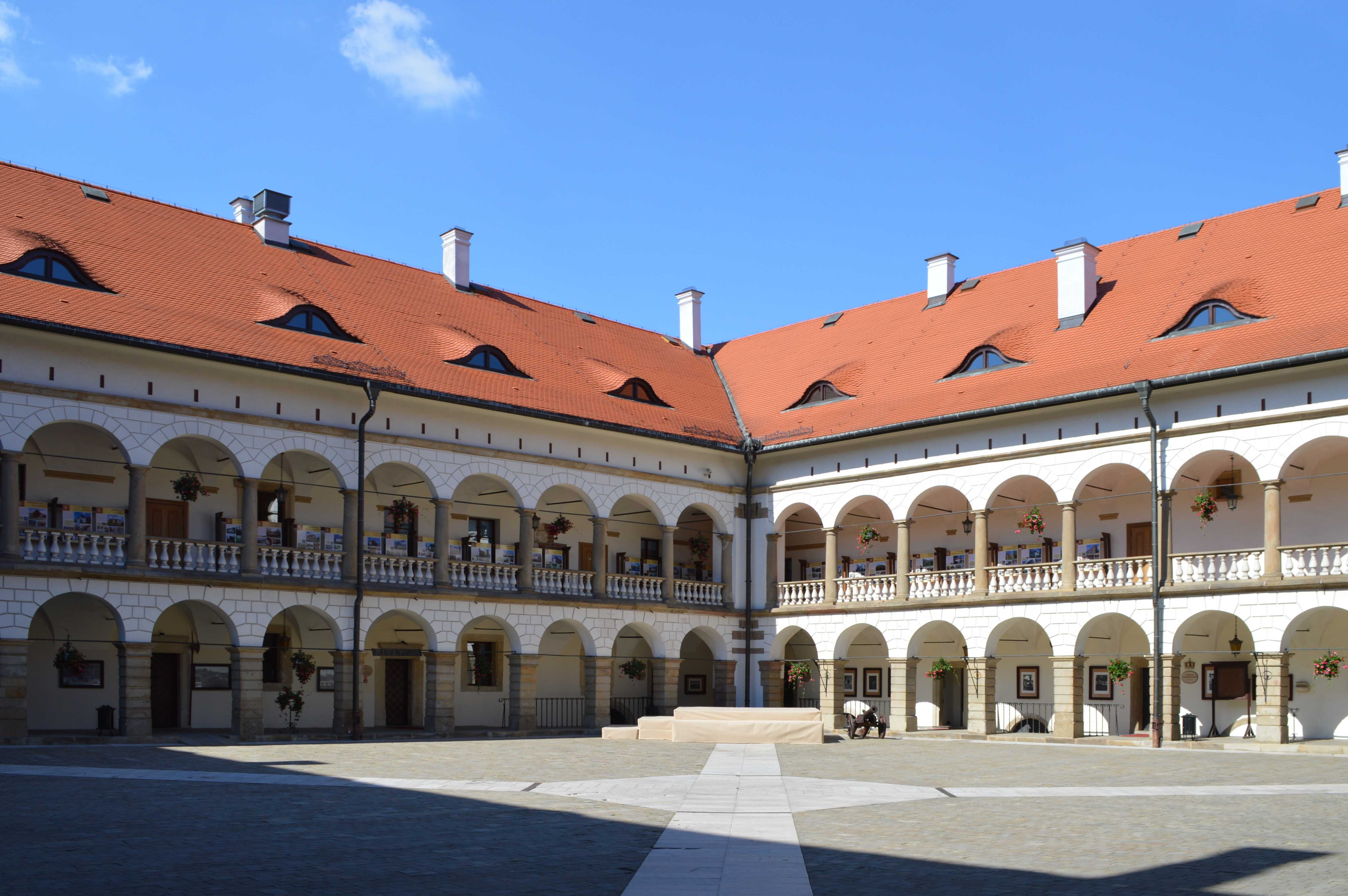 Niepołomice is a town in southern Poland belonging to Kraków and is situated on the Vistula (Wisła) river, on the verge of a large virgin forest (Niepołomice Forest (Puszcza Niepołomnicka)). There is a 14th-century Gothic Hunting Castle in Niepołomice built by Casimir III (“Casimir The Great”), as well as a European bison conservation centre nearby.The Scotch Mist Gallery contains many photographs of historic buildings, monuments and memorials of Poland.